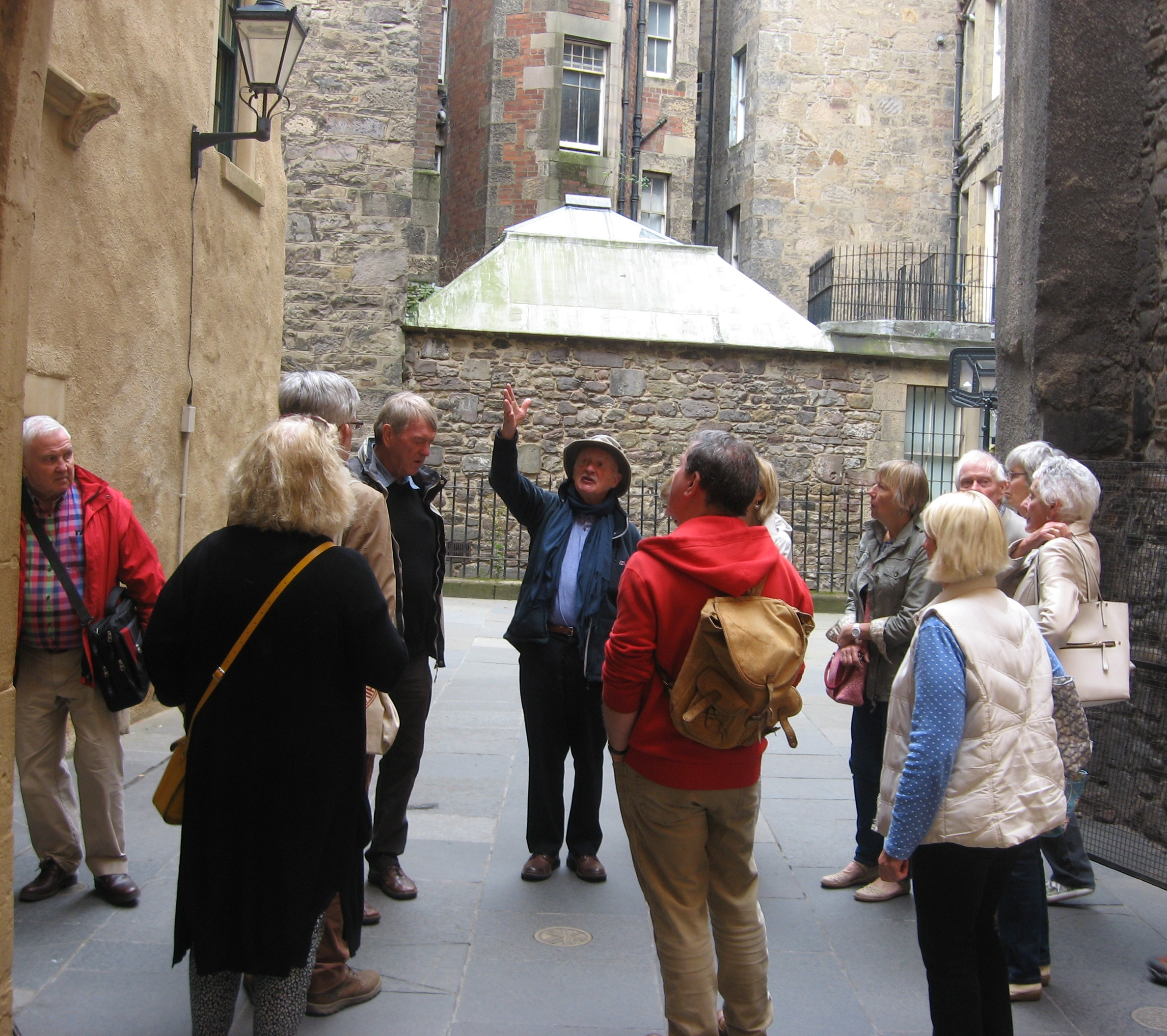 A volunteer member of the Edinburgh Festival Voluntary Guides Association (EFVGA) is showing visitors the 16th Century Riddle's Court in Edinburgh's Old Town.